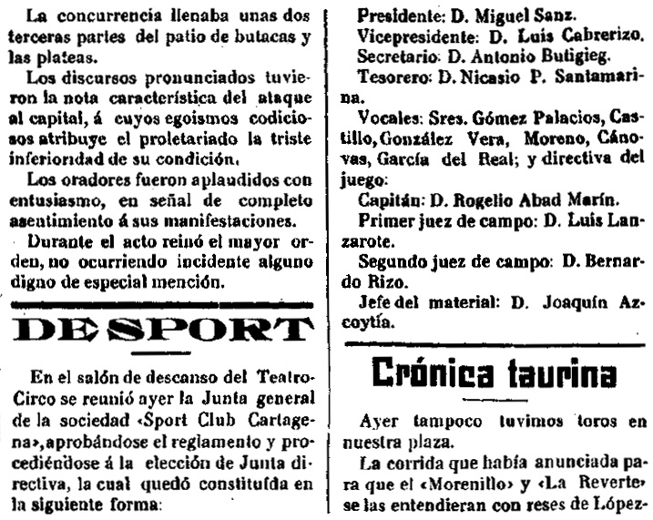 Photograph of the edition of the Spanish newspaper El Eco de Cartagena corresponding to September 24, 1906, which includes a press statement about the constitution of the sports society Sport Club Cartagena.